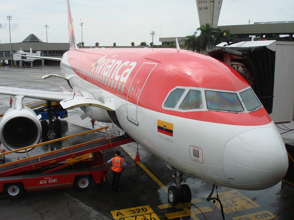 A320 en el aeropuerto Alfonso Bonilla Aragon